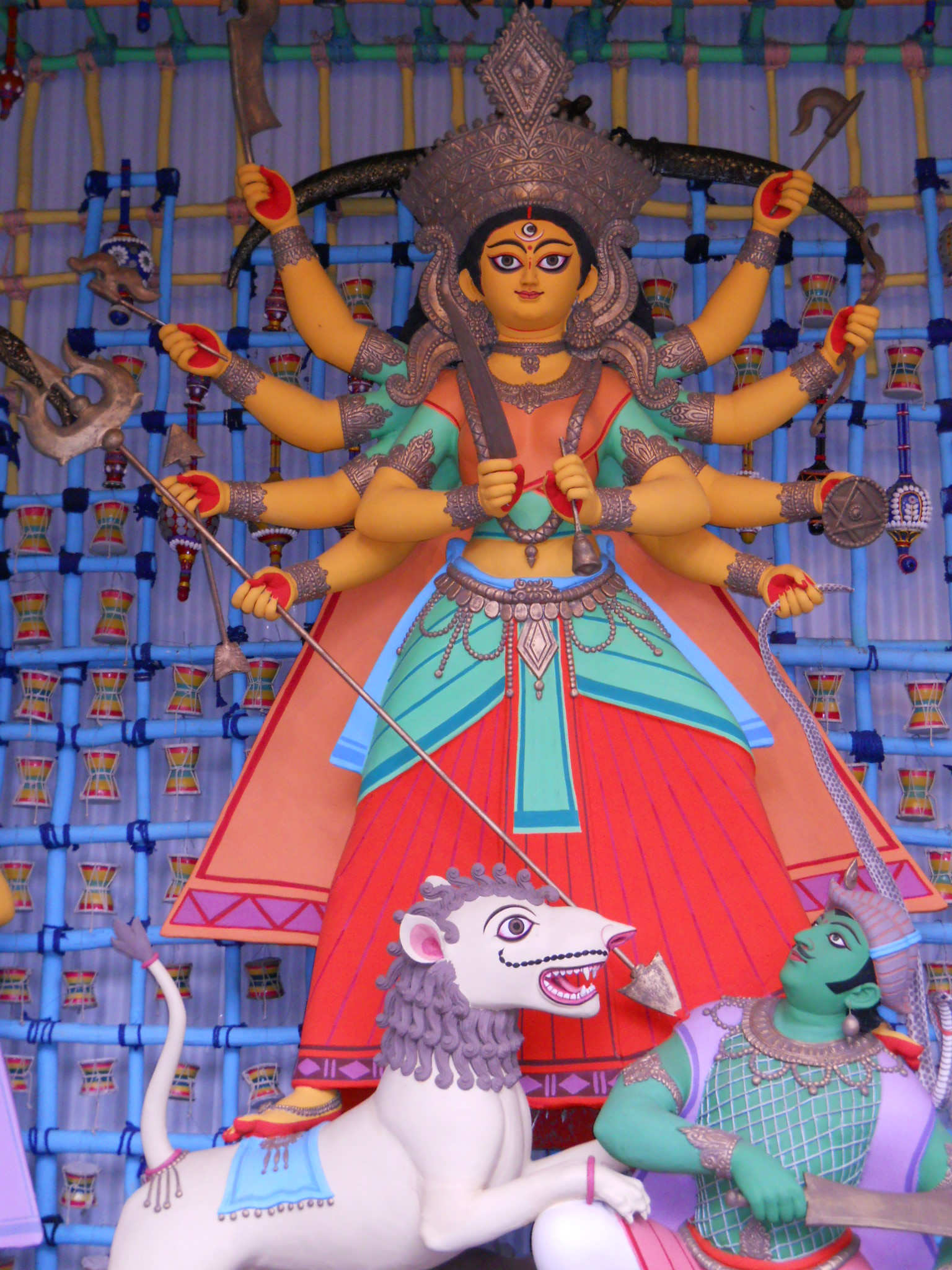 Chaltabagan